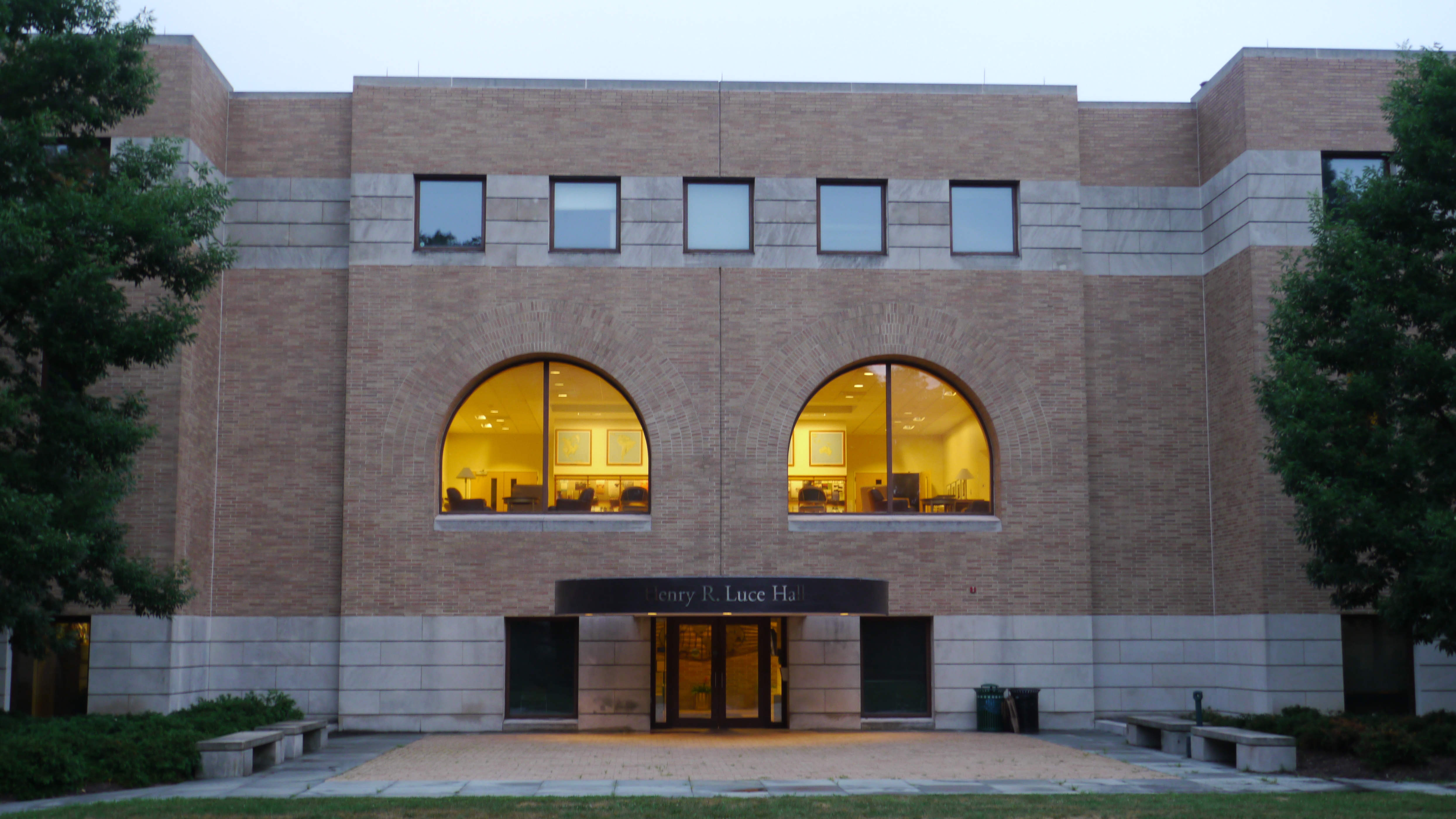 Luce Hall, constructed in 1993 in the Hillhouse Avenue Historic District by Yale University.